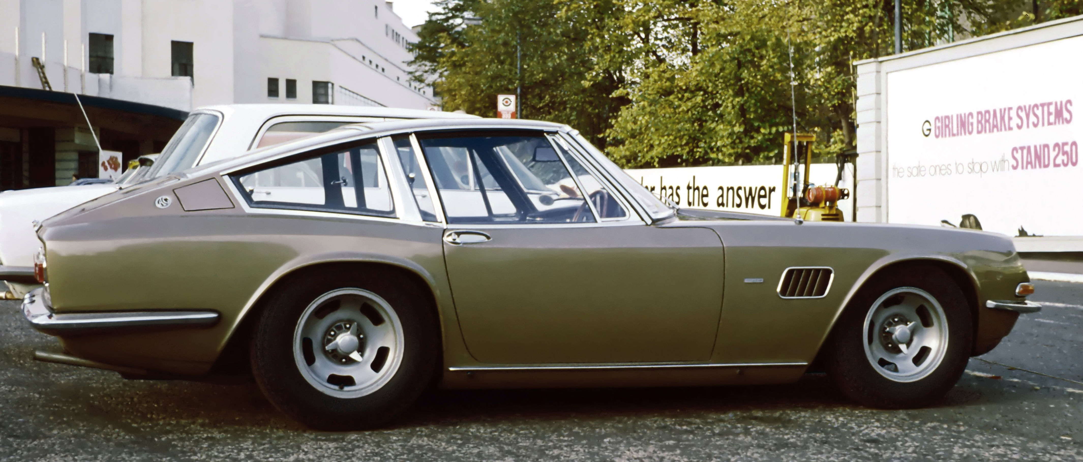 AC Frua at London motor show